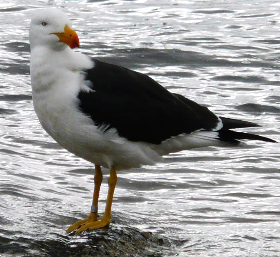 Pacific Gull (Larus pacificus) in Melbourne, Australia.